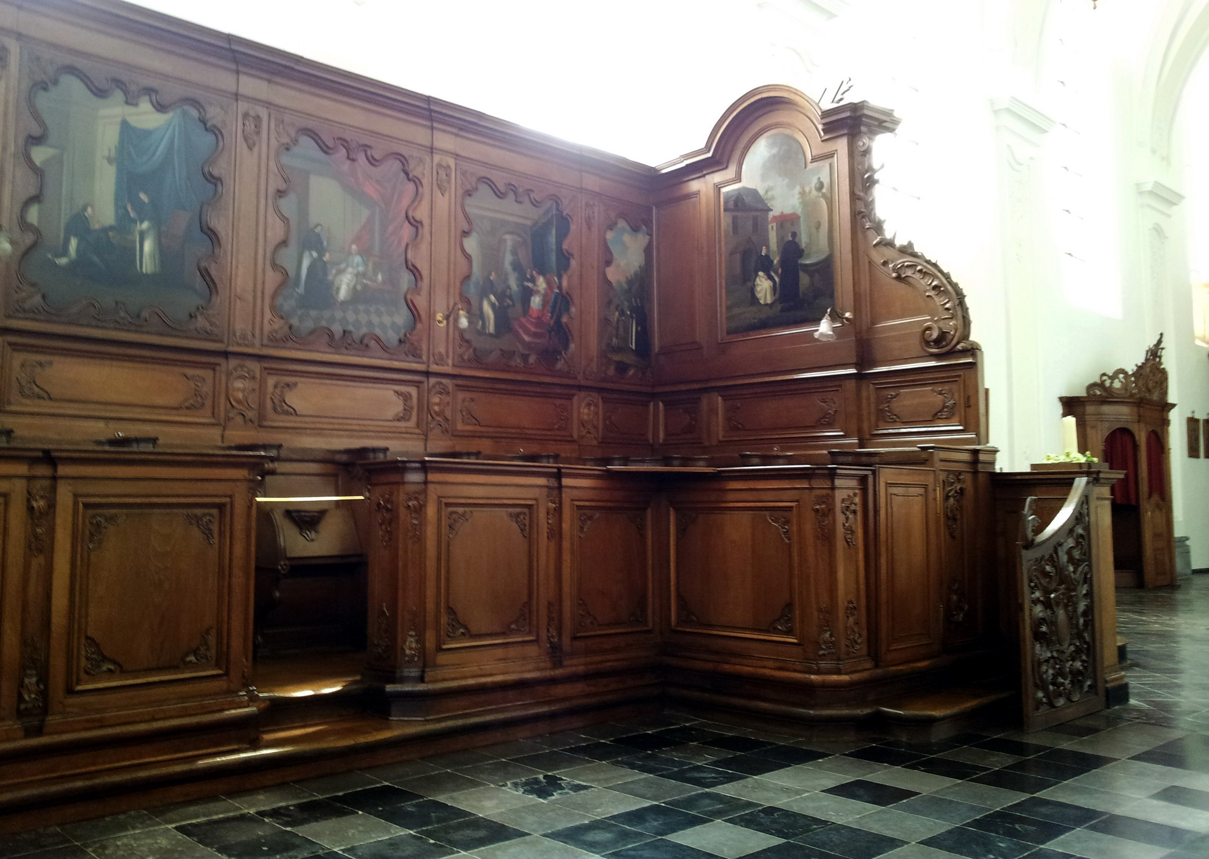 Borgloon-Kerniel, Belgium. View towards the South of the choir stalls in the chapel of Mariënlof Abbey in Liège-Aachen baroque style (oakwood, unknown Liège carver, ca 1764). The paintings by the Liège artist Martin Aubée depict the legend of Saint Odile in 14 scenes.